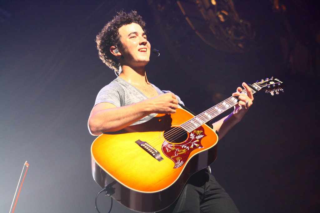 Jonas Brothers Concerts - Allstate Arena - Rosemont, Illinois 2009.